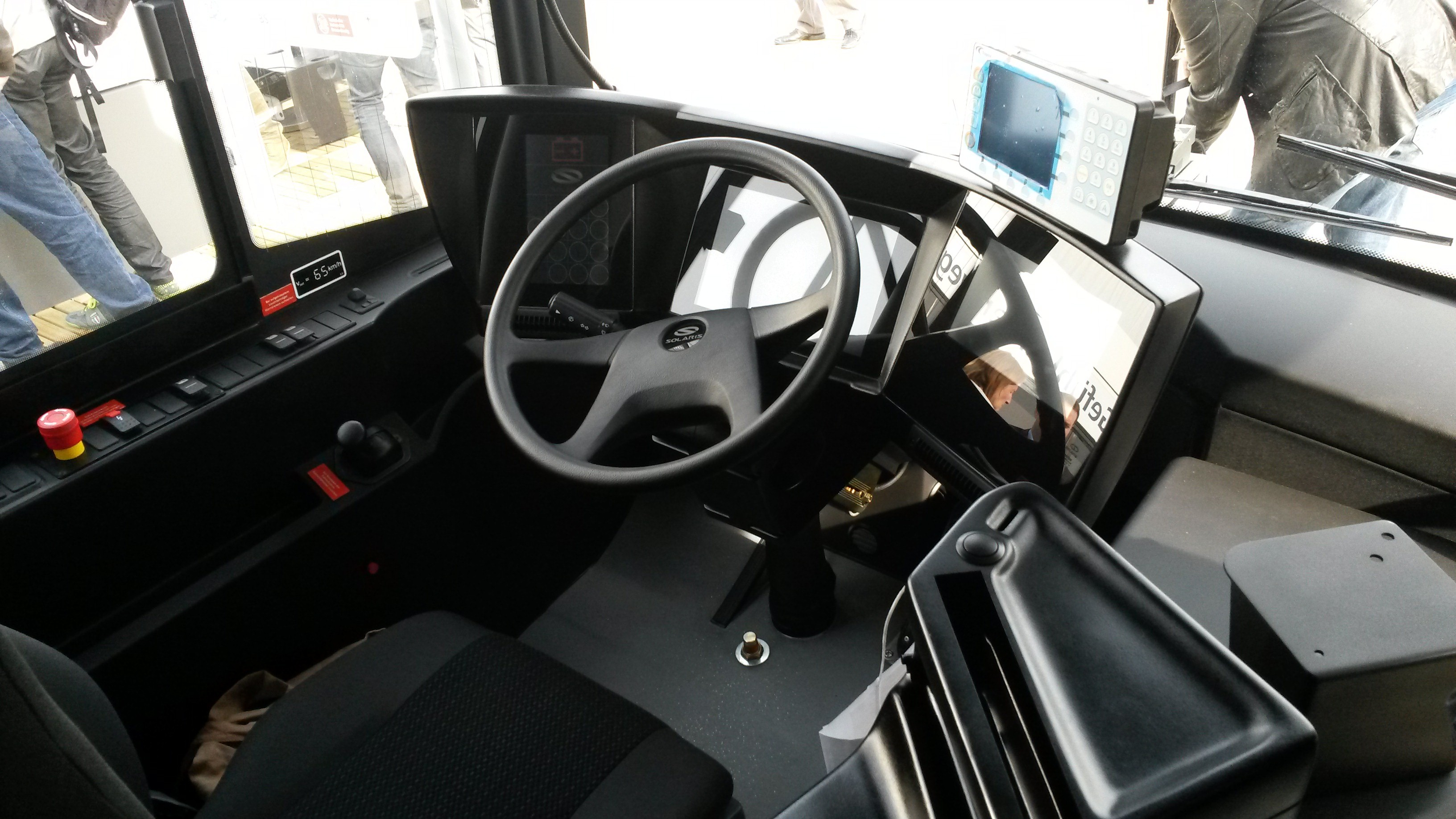 Touchscreen Dashboard in a Solaris Urbino 18 electric articulated bus for Brunswick (Germany).